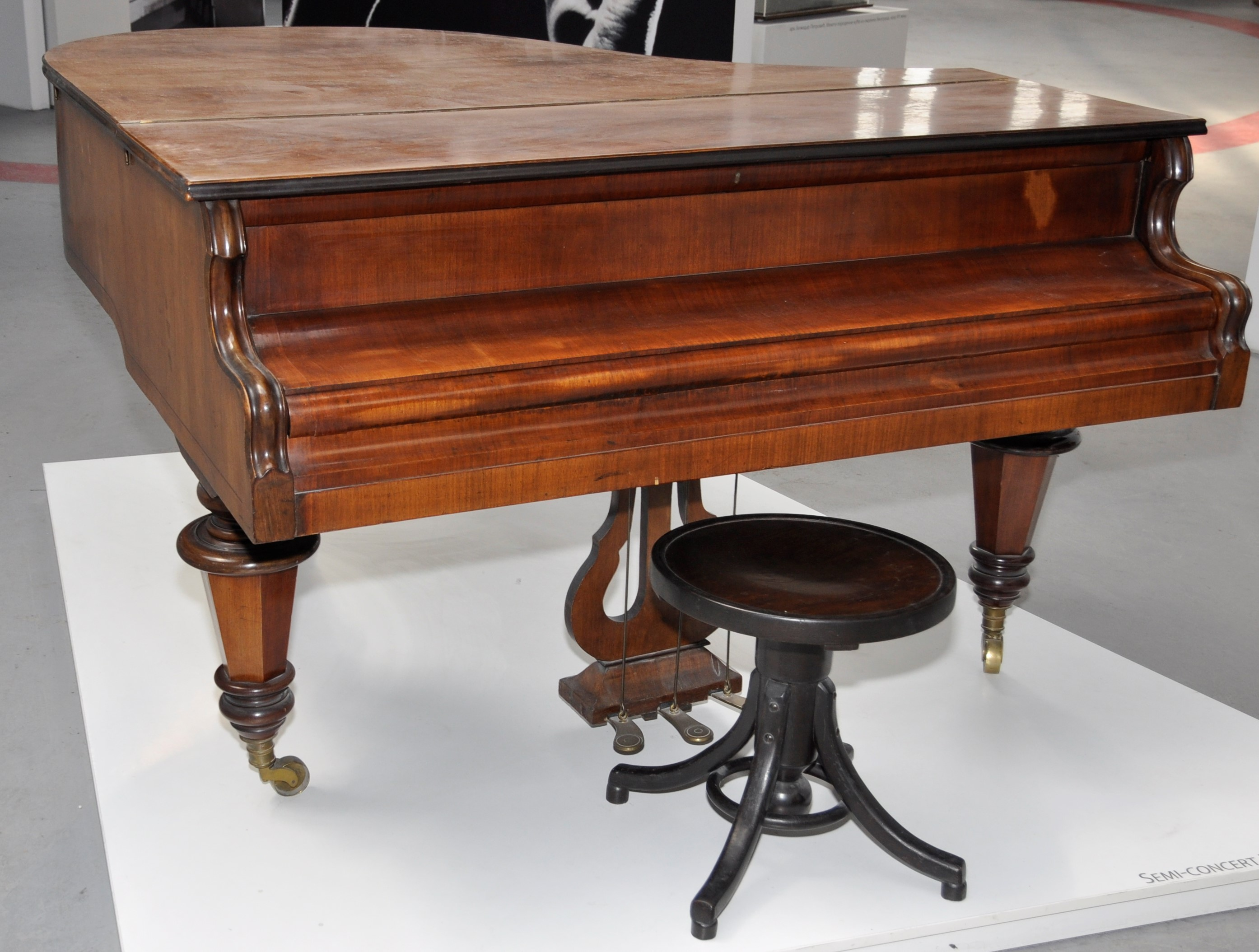 Semi-concert piano Lyra from 1908.